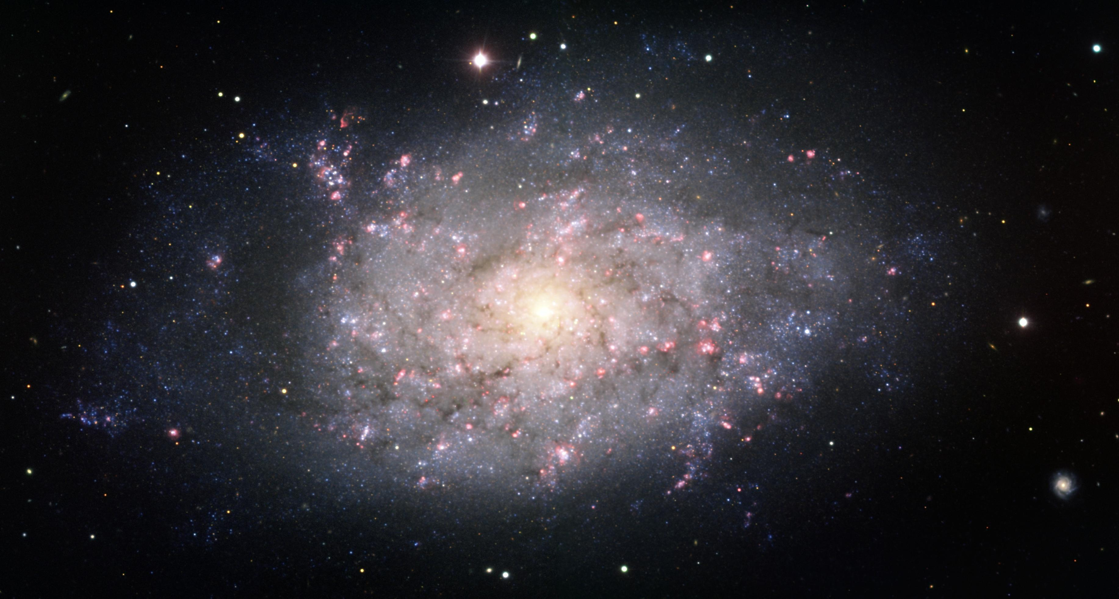 Image of the chaotic spiral galaxy NGC 7793, observed with the FORS instrument attached to ESO’s Very Large Telescope at Paranal. The image is based on data obtained through B, V, I and H-alpha filters. ID: phot-14b-09-fullres Press Photo: 14-09 Size: 3667x1964 Credit: ESO